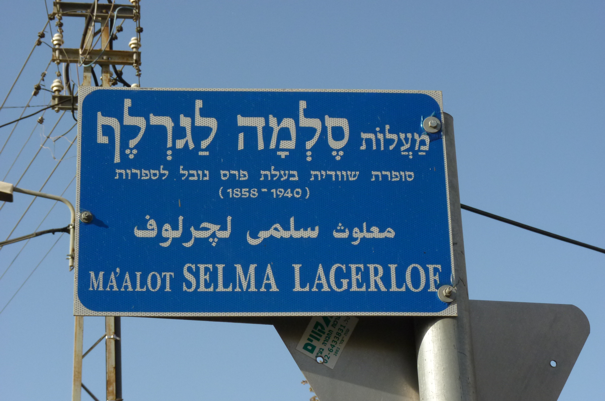 Jerusalem, Tchernichovsky street - Street sign for a street in Jerusalem named after Selma Lagerlof